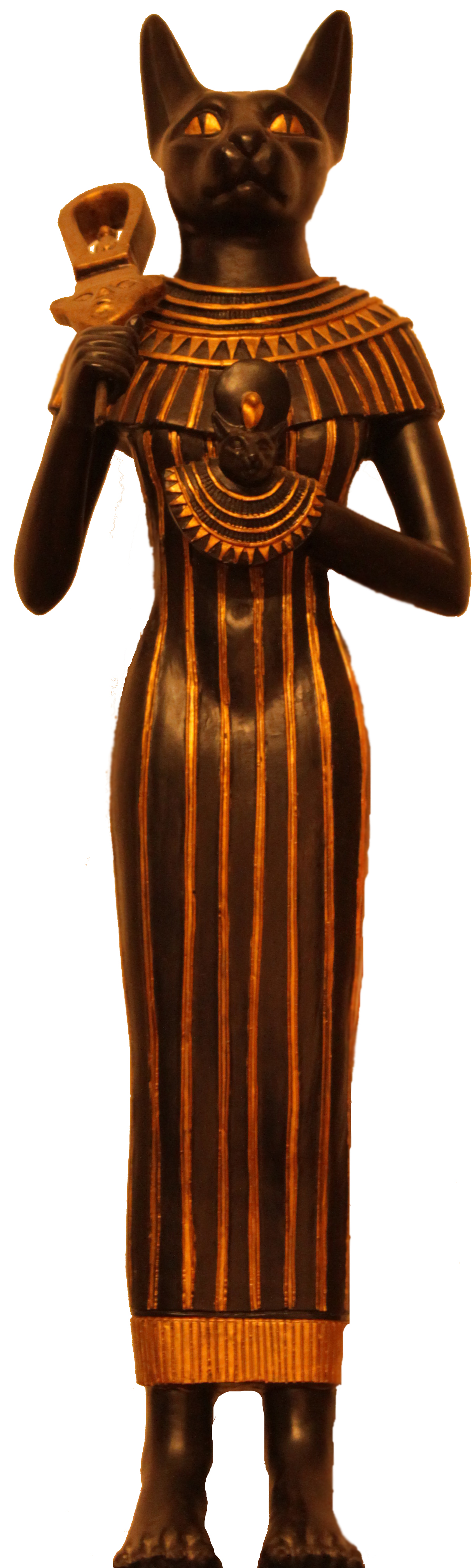 Godess Bastet shown as a ancient egyptian lady with the head of a cat. In HER hands SHE holds the Sitsrum. The statue is a modern replication of an antique antetype.